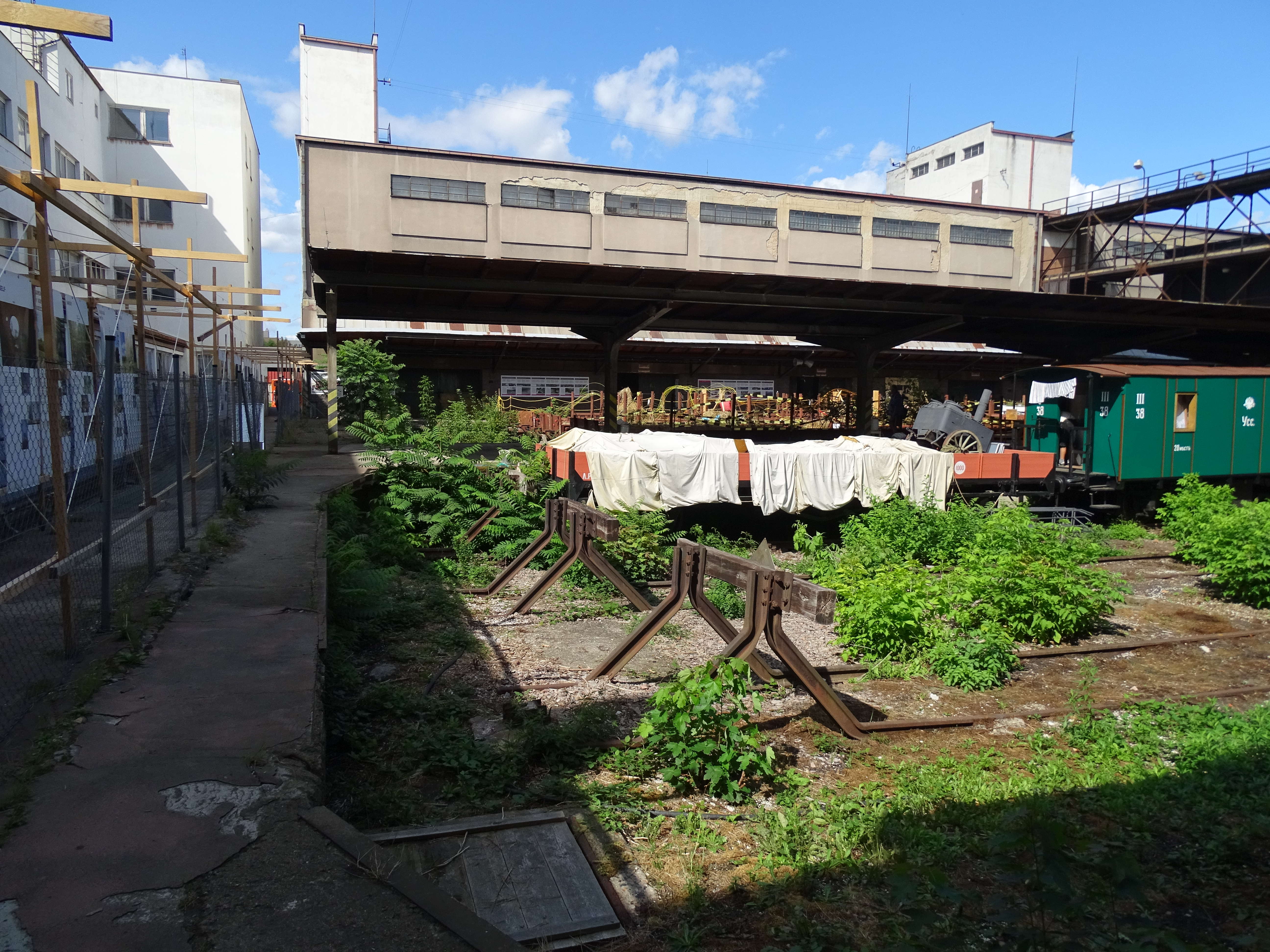 Prague-Žižkov, Czech Republic. Jana Želivského 2200/2, Praha-Žižkov freight station.